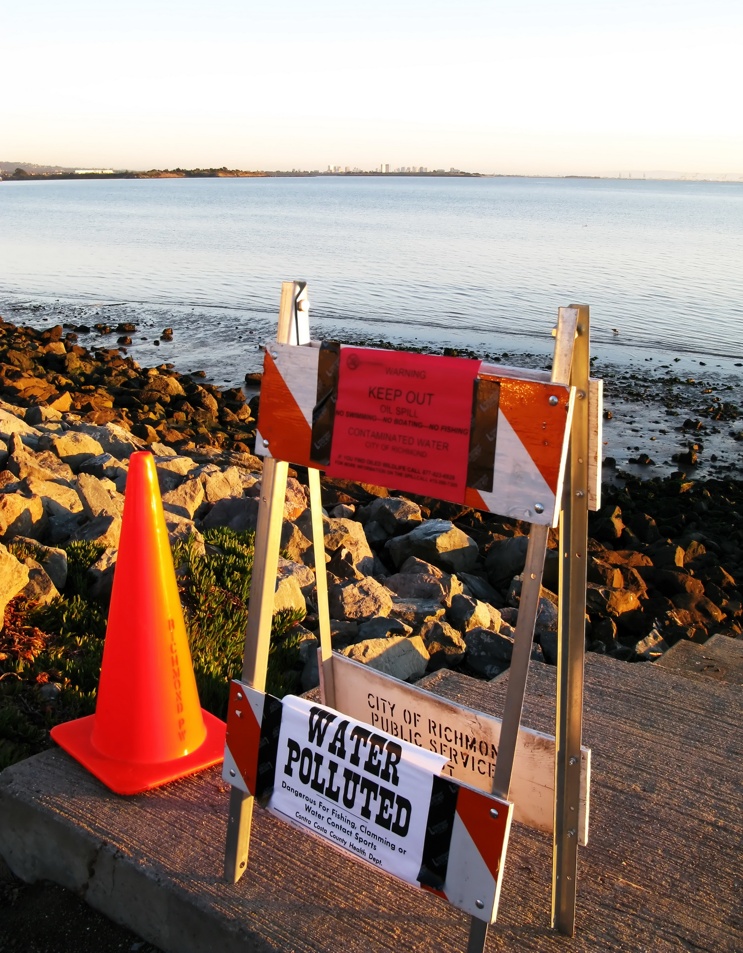 A Contra Costa county sign in Richmond Marina Bay warns of shoreline closure due to oil contamination. Photo November 11th, 2007.